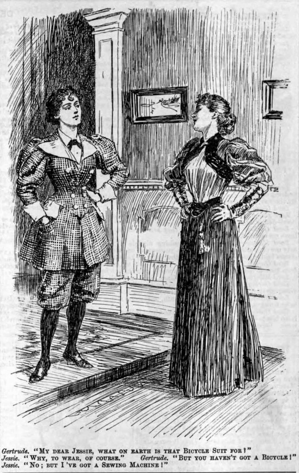 "The Bicycle Suit", caricature from the Punch magazine (1895). "The Bicycle Suit", cartoon from Punch, 1895. At the time, this type of attire was a new-fangled innovation which it was only considered acceptable for women to wear while bicycle riding (and many old-fashioned people would have considered the style too unacceptably masculinized for even that purpose). The idea that women could wear such clothes in public for any other reason than riding a bicycle seemed ridiculous... Transcription: Gertrude. "My dear Jessie, what on earth is that Bicycle Suit for?" Jessie. "Why, to wear, of course." Gertrude. "But you haven't got a Bicycle!" Jessie. "No: but I've got a Sewing Machine!"